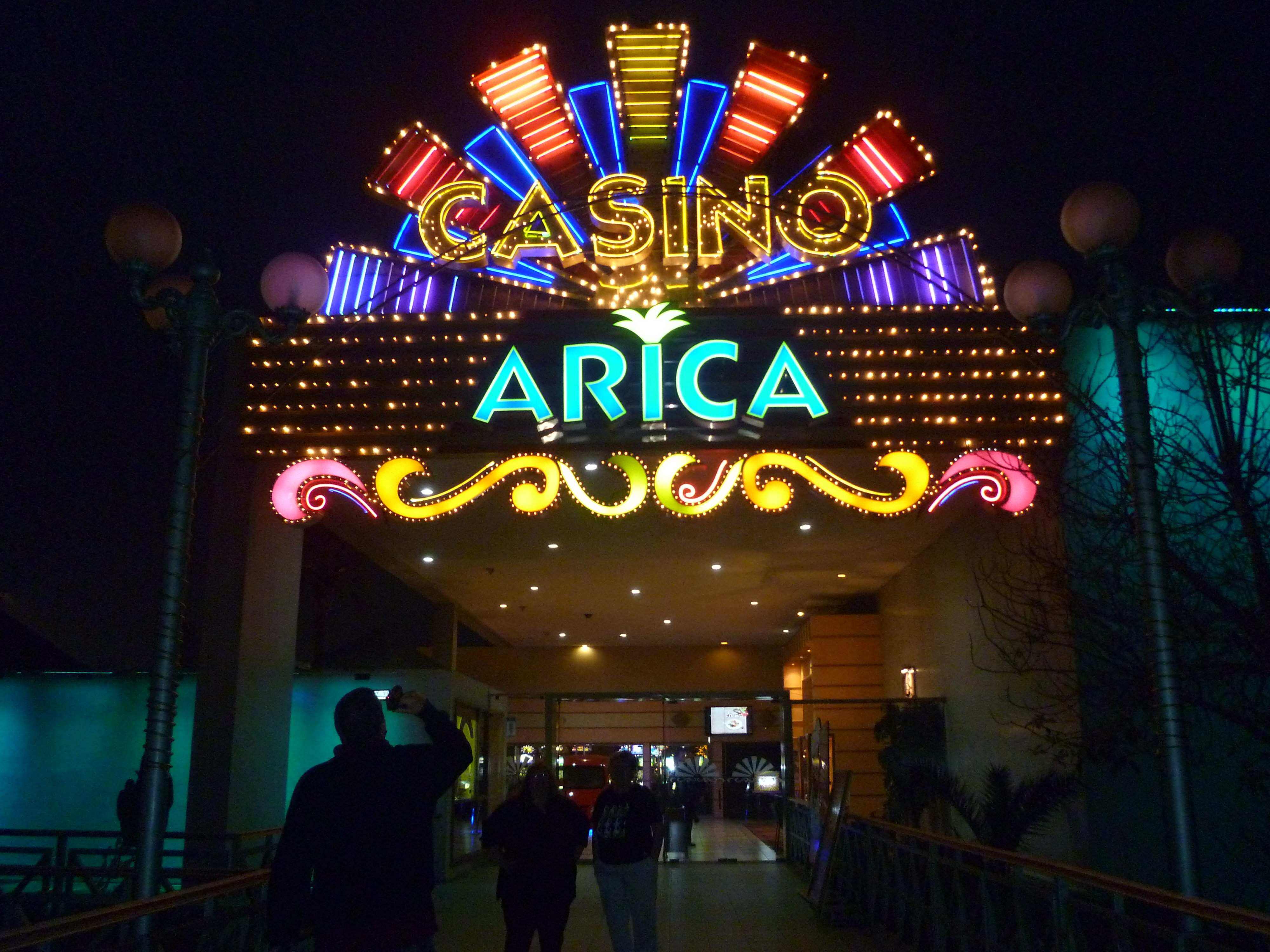 Entrada del Casino Arica